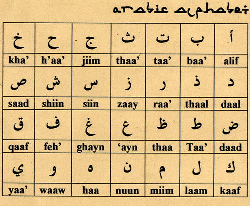 Arabic Alphabet